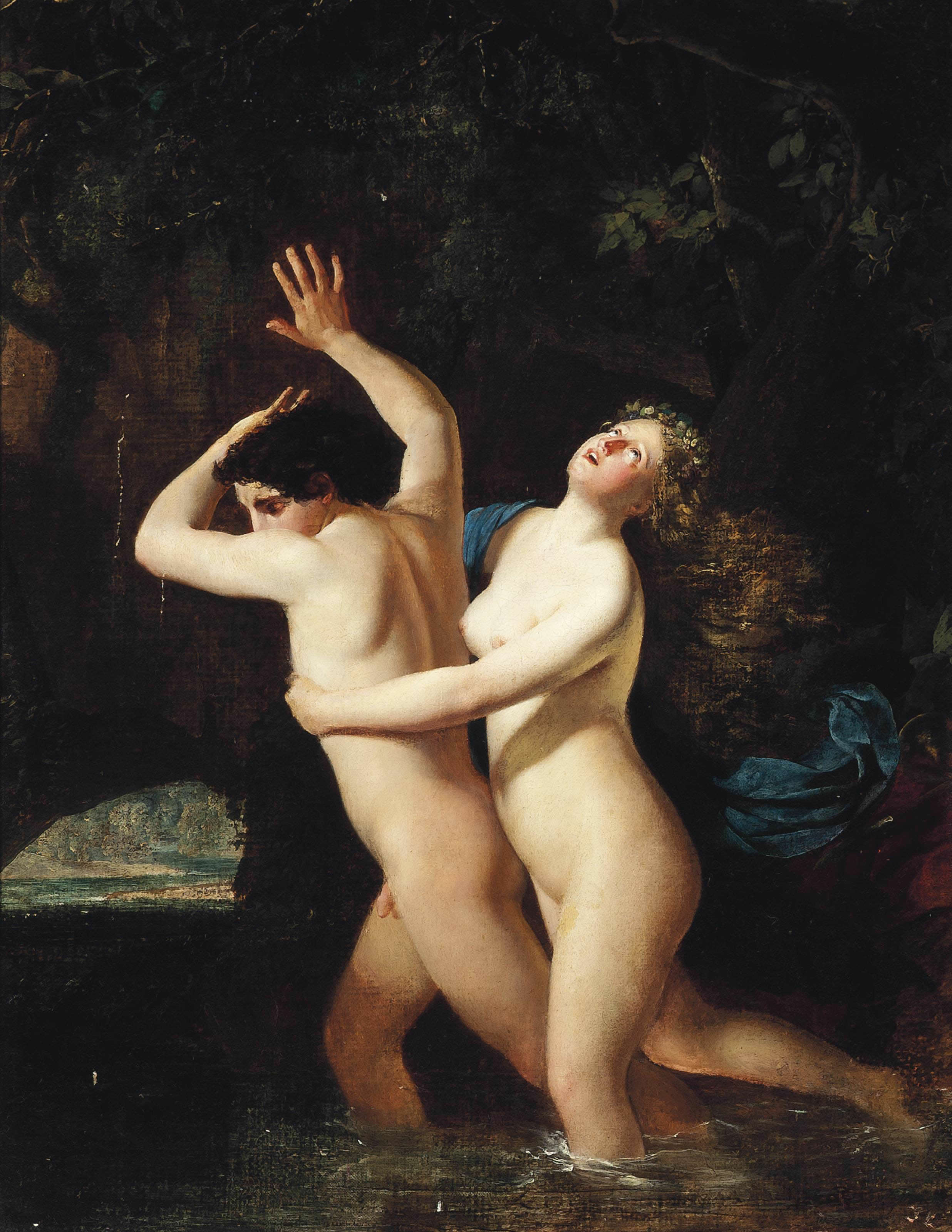 Although entitled Hylas and a Nymph-the singular encounter of one male and one female point that it probably shows the mythological story of the nymph Salmacis seducing the youth Hermaphroditus